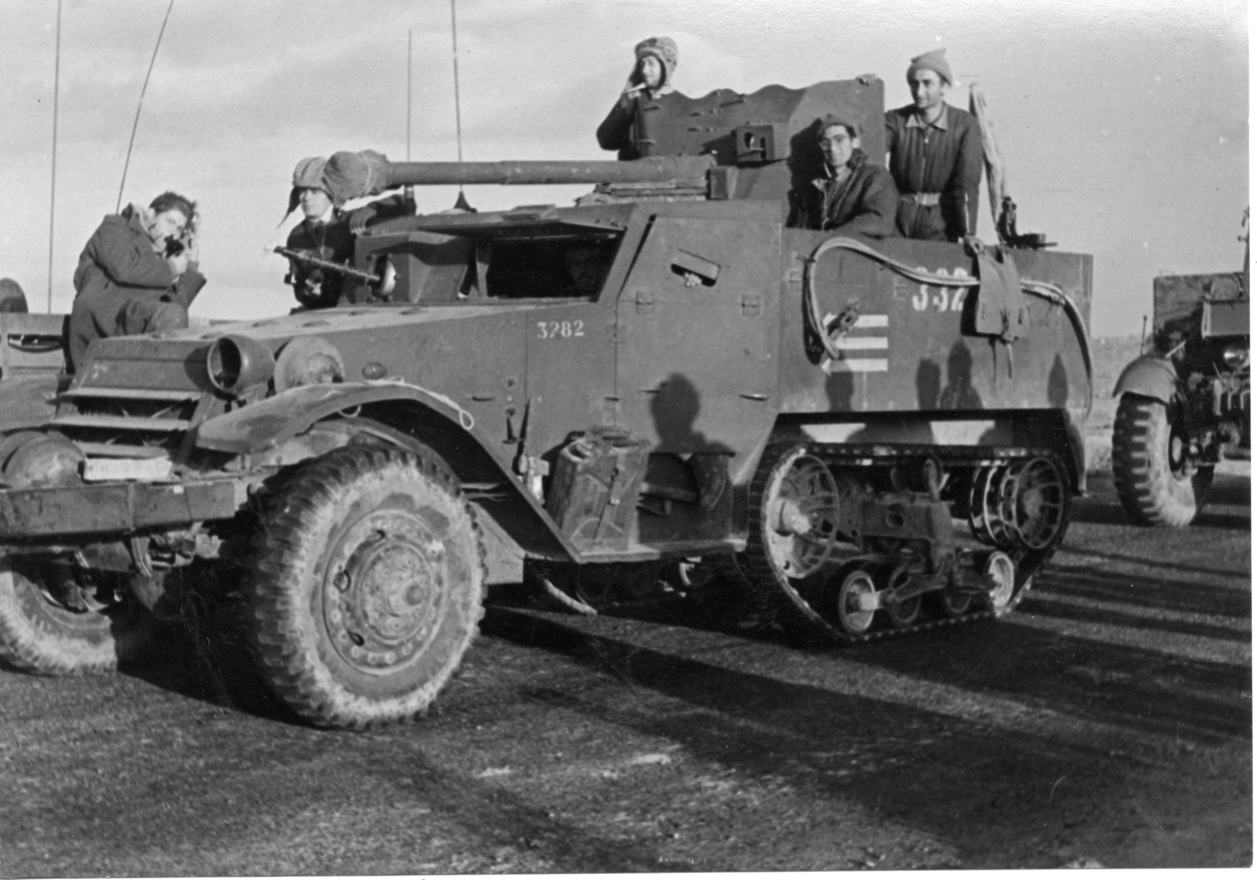 The Palmach, Israel Defense Forces